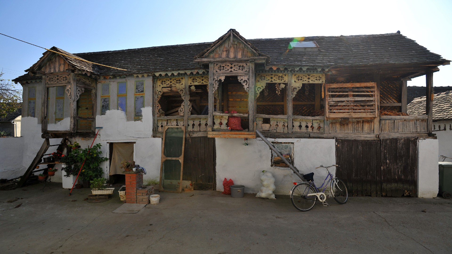 Ambar with a corner in Kupunovo, Žike Maričića 17 street- front view